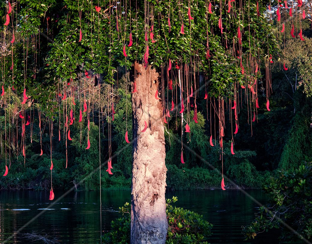 BOOTLACE TREE WITH RED FRUITS SURINAM AMAZONE SOUTH-AMERICA